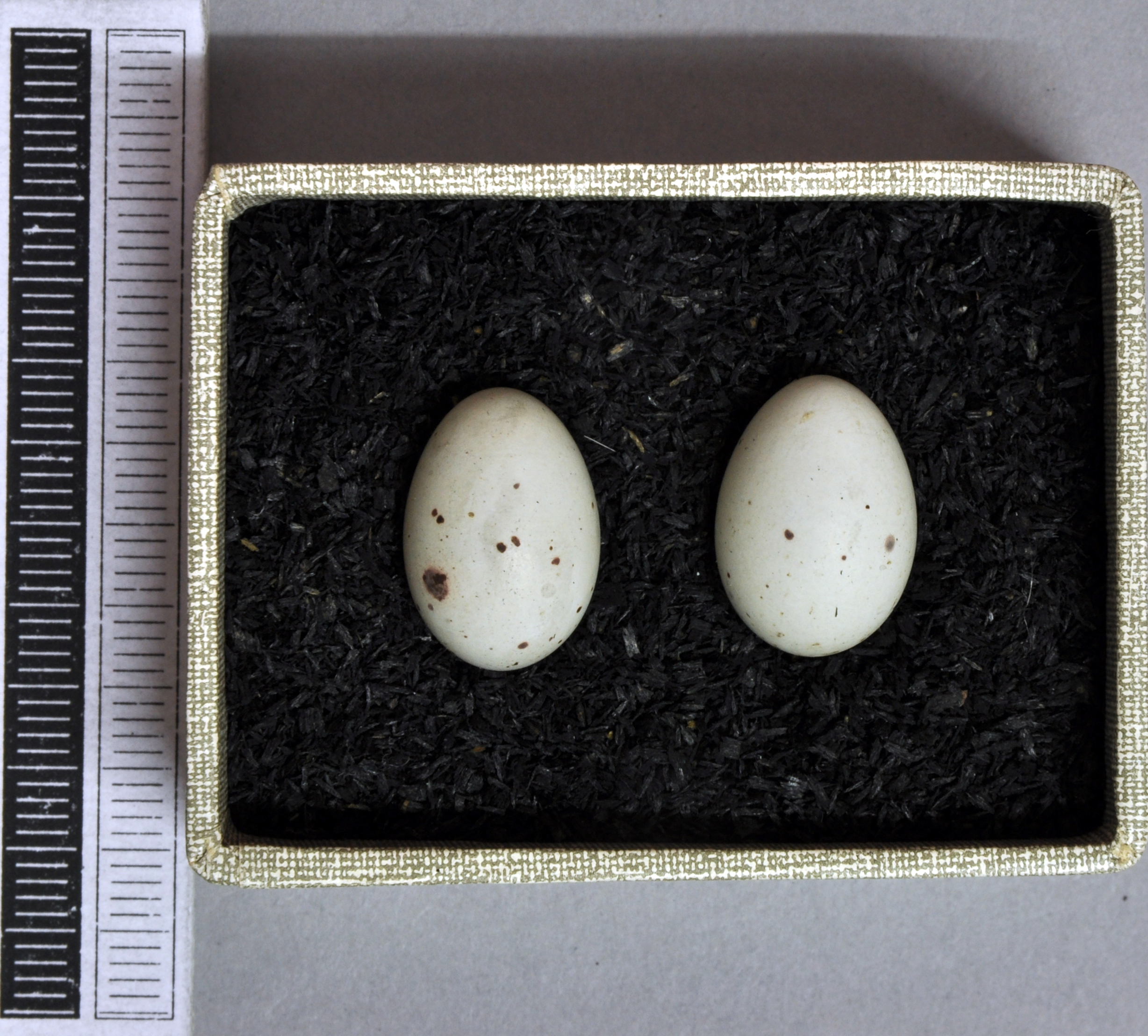 Zitting cisticola Cisticola juncidis , egg, Coll. Museum Wiesbaden